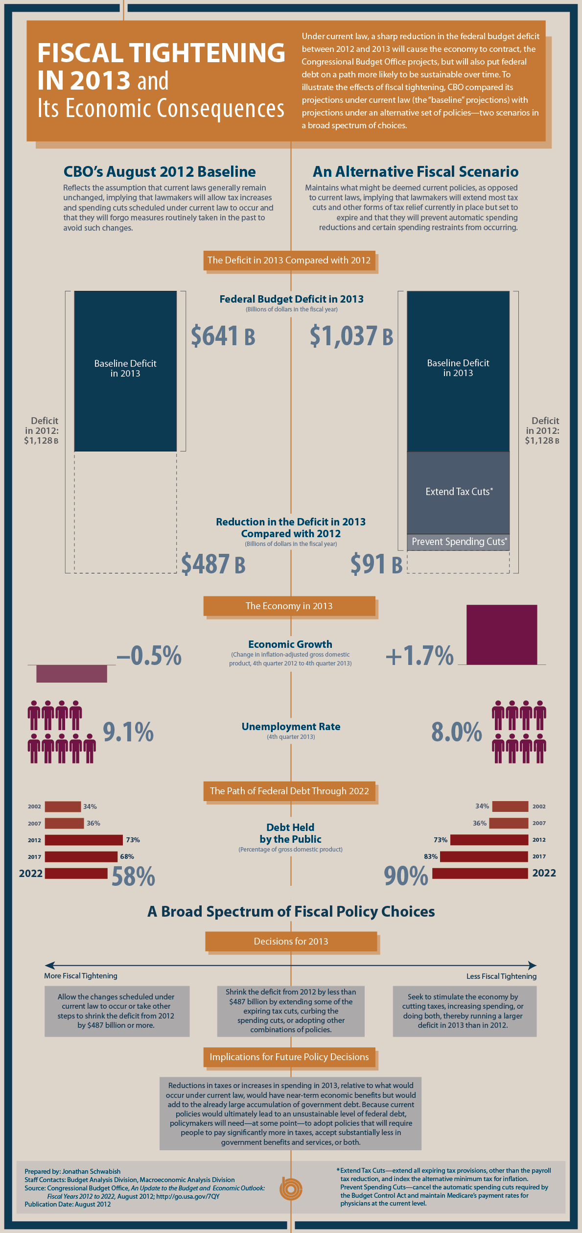 This is a CBO infographic projecting the economic consequences for 2013 and the following years of two situations as of August 2012: the CBO Baseline and an Alternative Scenario.